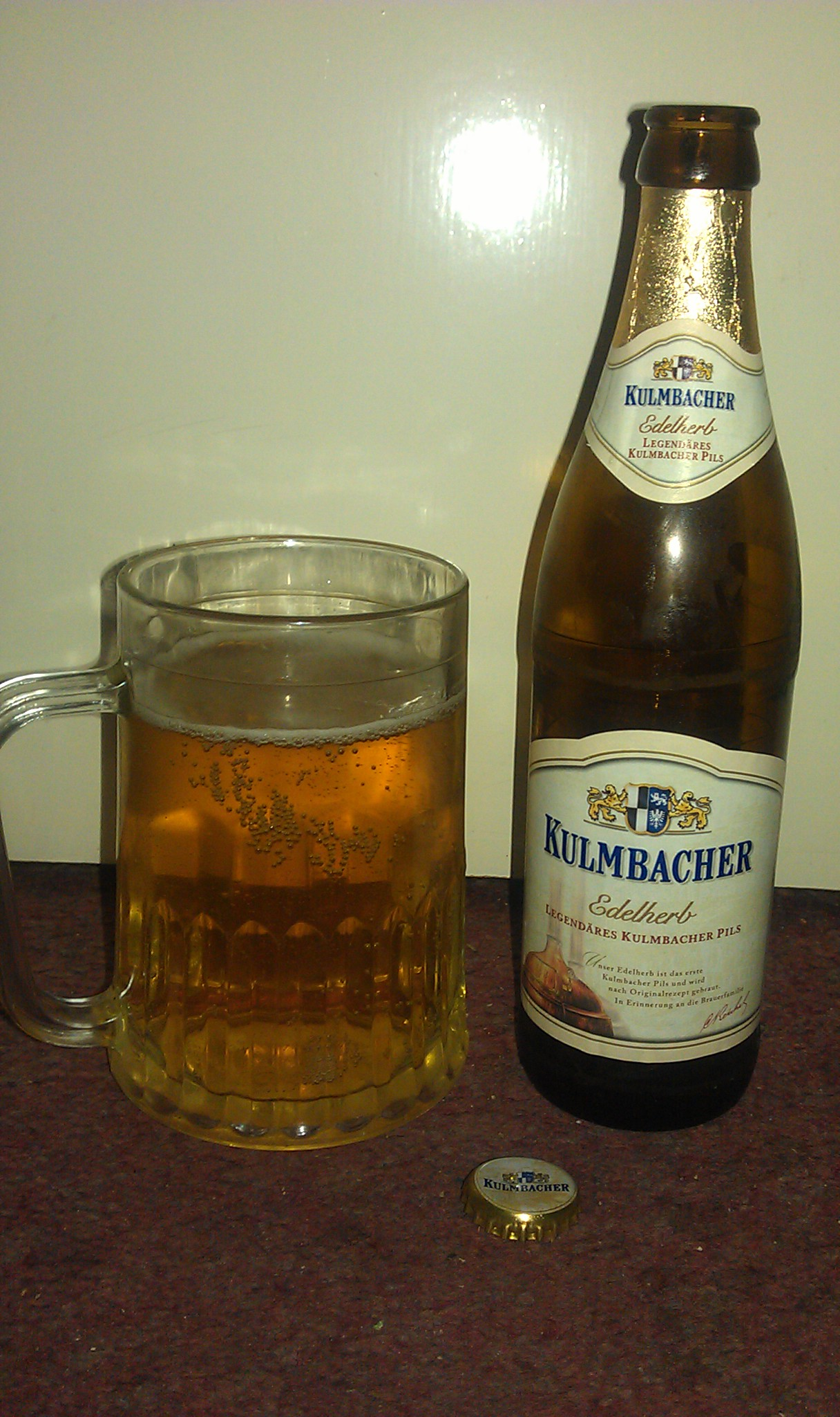 Kulmbacher Edelherb Pils. 0.5l bottle, opened and poured into an English pint glass. 4.9% ABV